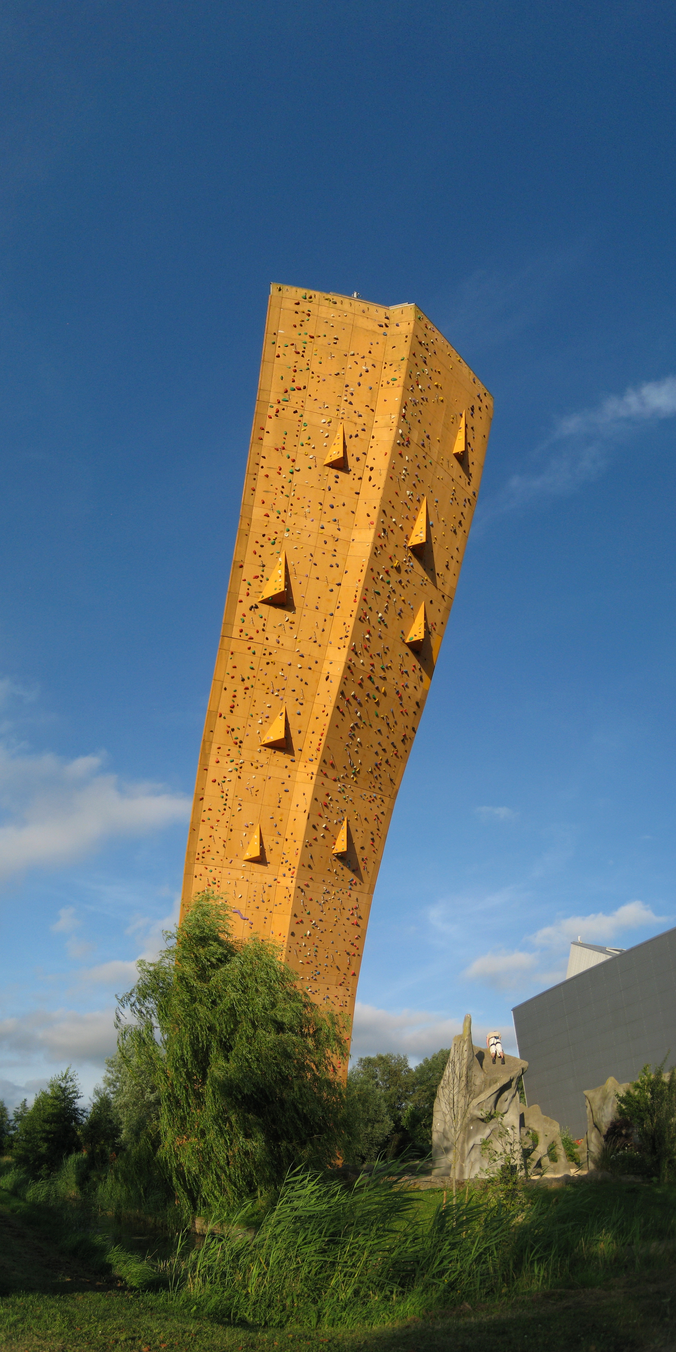 The climbing tower of Klimcentrum Bjoeks in the Dutch city of Groningen.